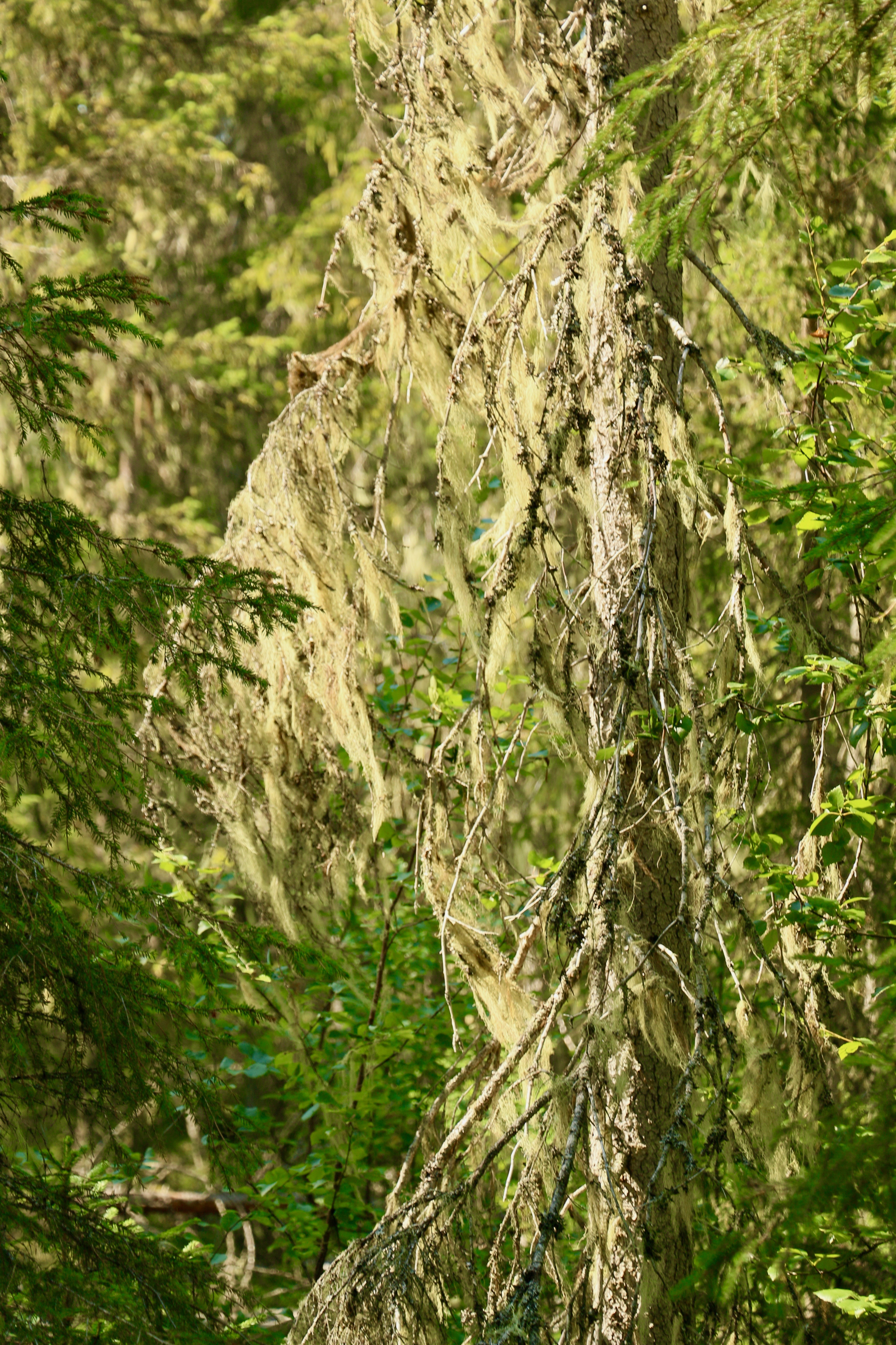 Lichen hanging from the branches of pine and spruce trees, Björnlandet national park